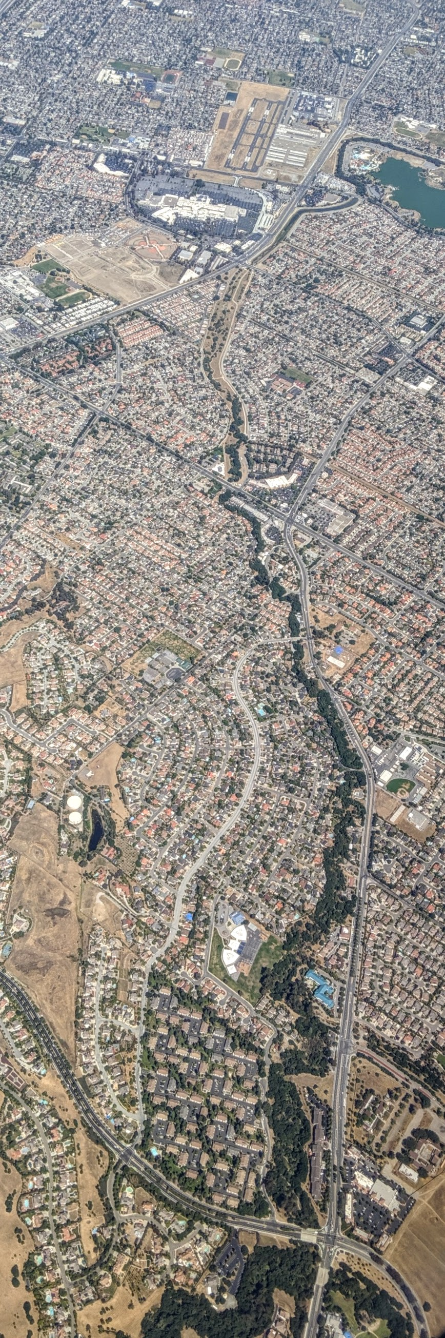 Aerial view of Thompson Creek in San Jose, California. At Raging Waters at the upper right it becomes Lower Silver Creek, a tributary to Coyote Creek; Silver Creek is sometimes labeled Miguelita Creek near its confluence with Coyote Creek. The Yerba Buena Rd. at San Felipe Rd. intersection at Evergreen Park is visible at bottom. Reid–Hillview Airport and Eastridge Center are visible near top center.